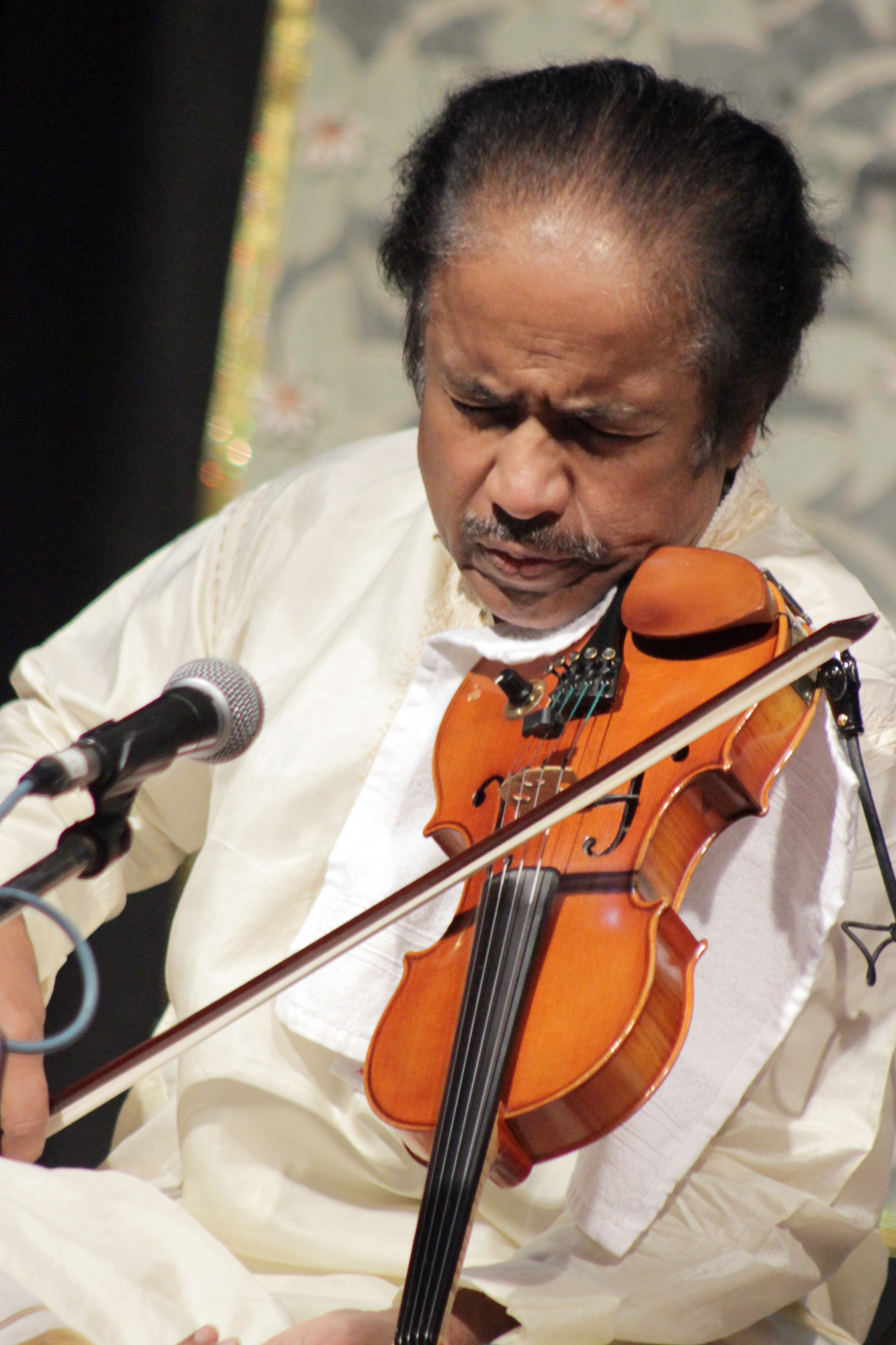 L. Subramaniam at Bharat Bhavan Bhopal